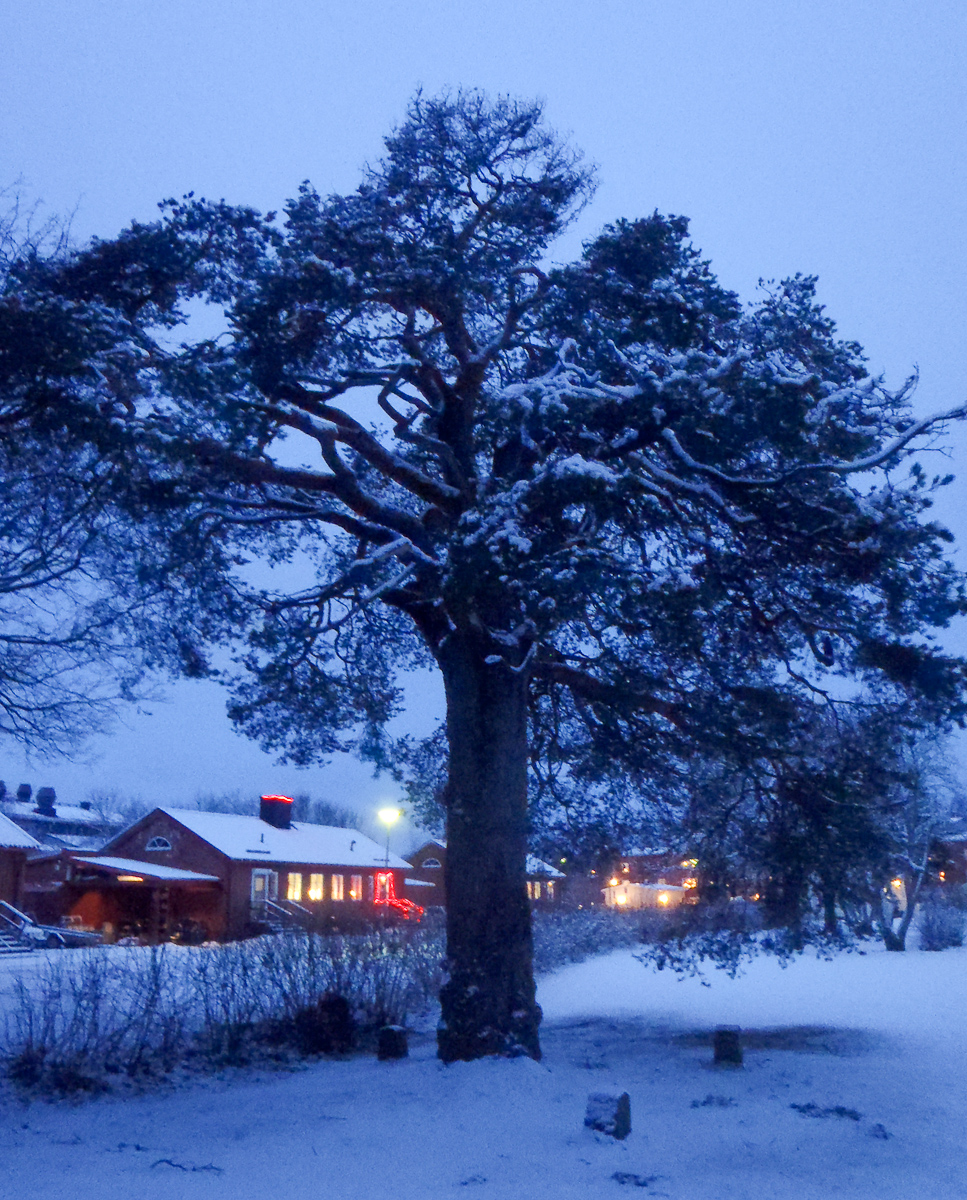 Rysstallen at the Backen war grave. Taken december 2011.